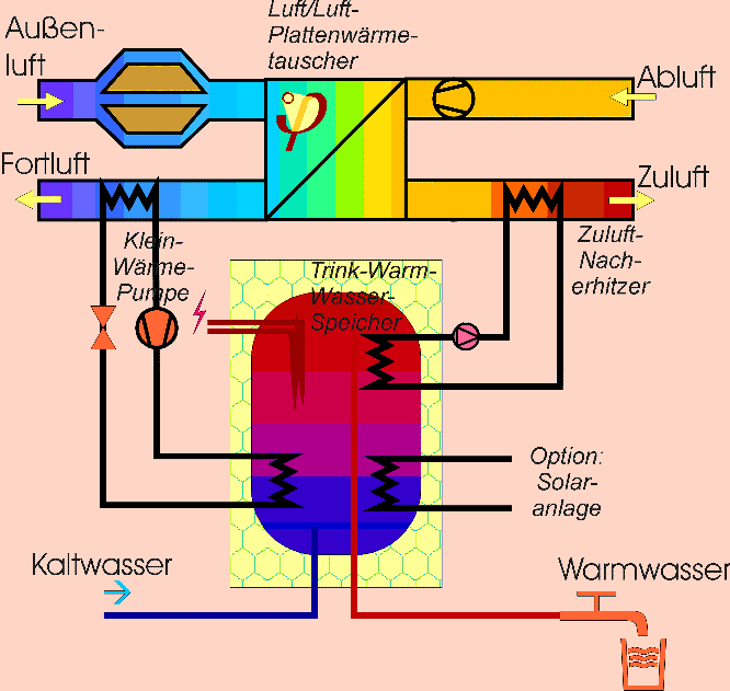 Passivhaus heating diagram